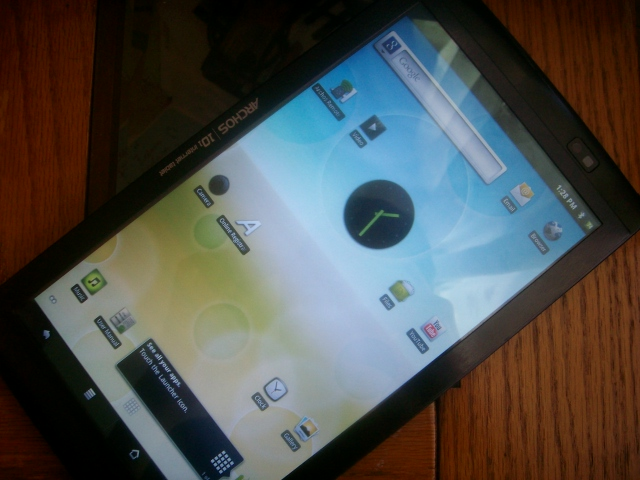 A snapshot of the Archos 101 IT in portrait mode.